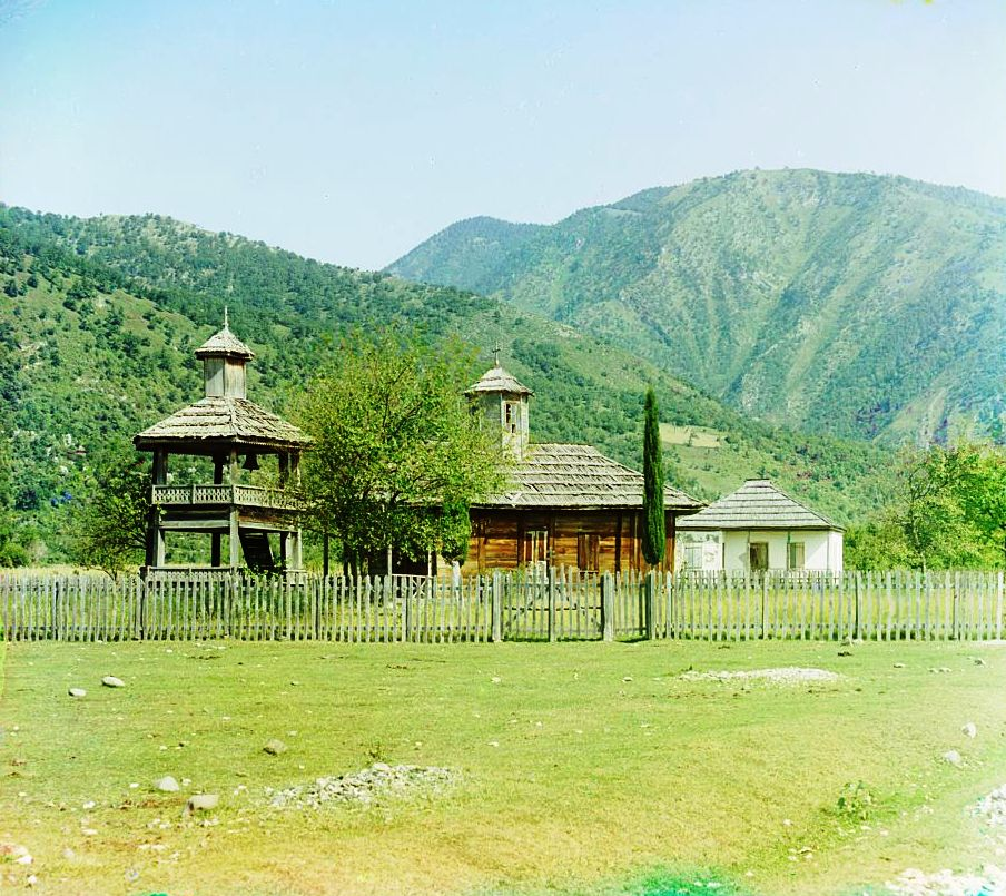 Church in Koldakhvary, eight versts from Gagra.